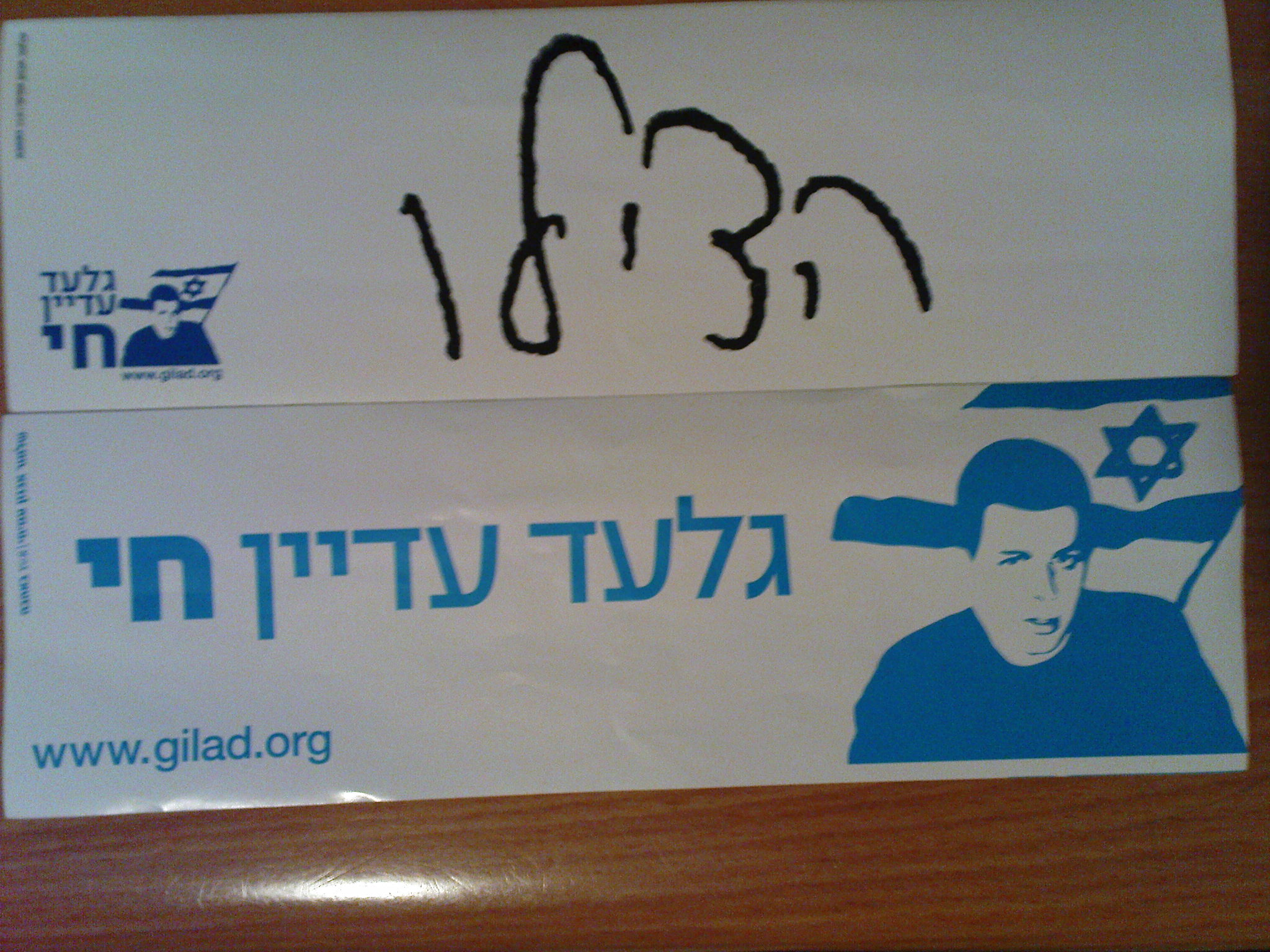 Israel - Stickers for Gilad Shalit. Gilad is still alive גלעד עדיין חי הַצִּילוּ : Help! Save [him]!